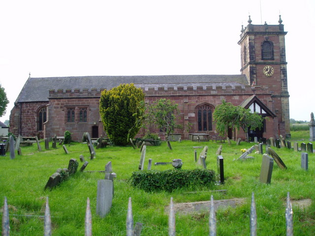 Church of St Dunawd, Bangor on Dee It is believed that the church dates from about 1300. It was extensively restored and rebuilt between 1723 and 1727, and again restored in 1832, and further modified in 1877. It is presently dedicated to St. Dunawd, who was the first Abbott of the monastery at Bangor; but there is some evidence that an earlier dedication was to St. Deiniol.